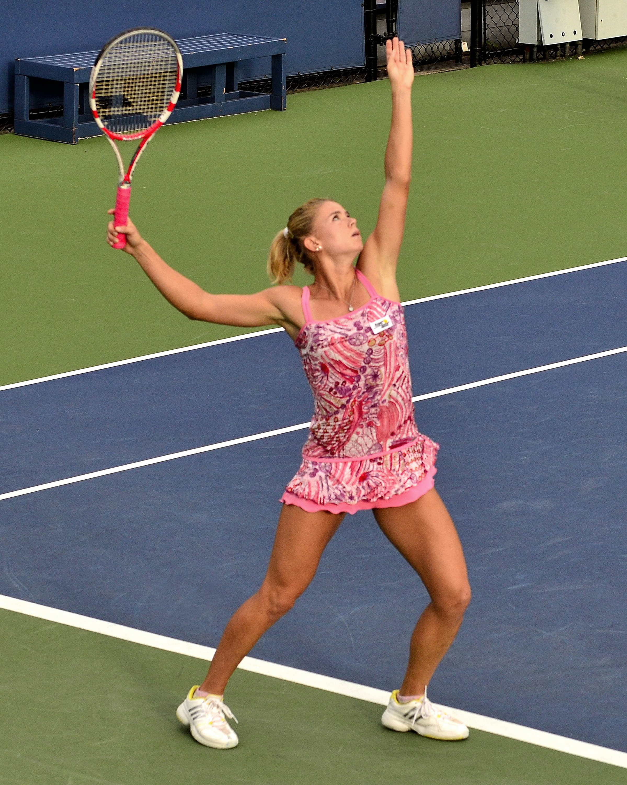 Queens, NY August 23, 2013 Camila Giorgi (ITA) def. Julia Cohen (USA) Court 10